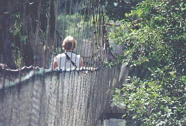 I took this picture of the Canopy Walk at Kakum National Forest in Ghana in June, 2000. There are seven spans on the route, about a half mile (0.8 km) in total length, and about 70 feet (22 m) above the forest floor.